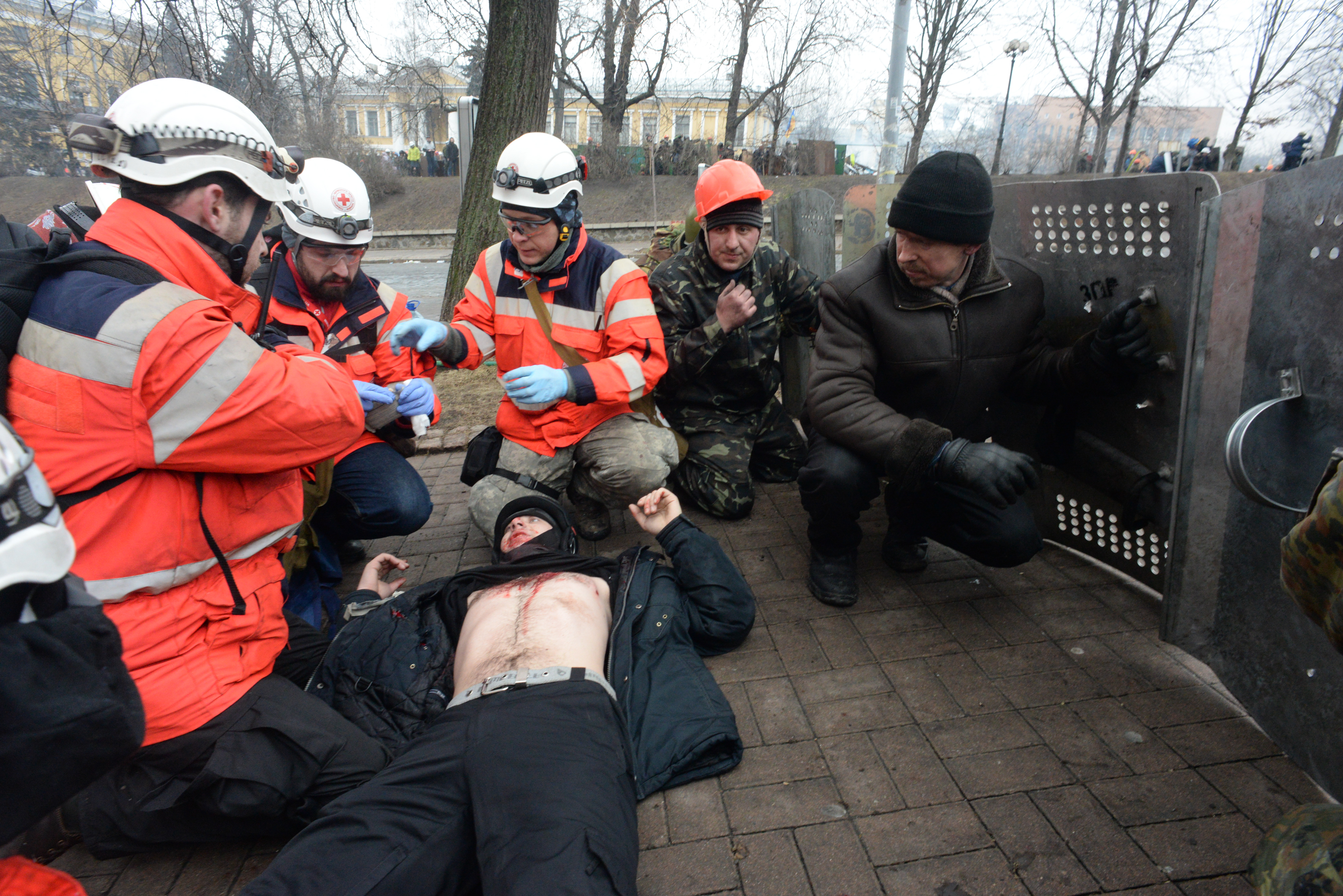 Ukrainian Red Cross volunteers performing first medical aid as the clashes rage in Kyiv, Ukraine. Events of February 20, 2014